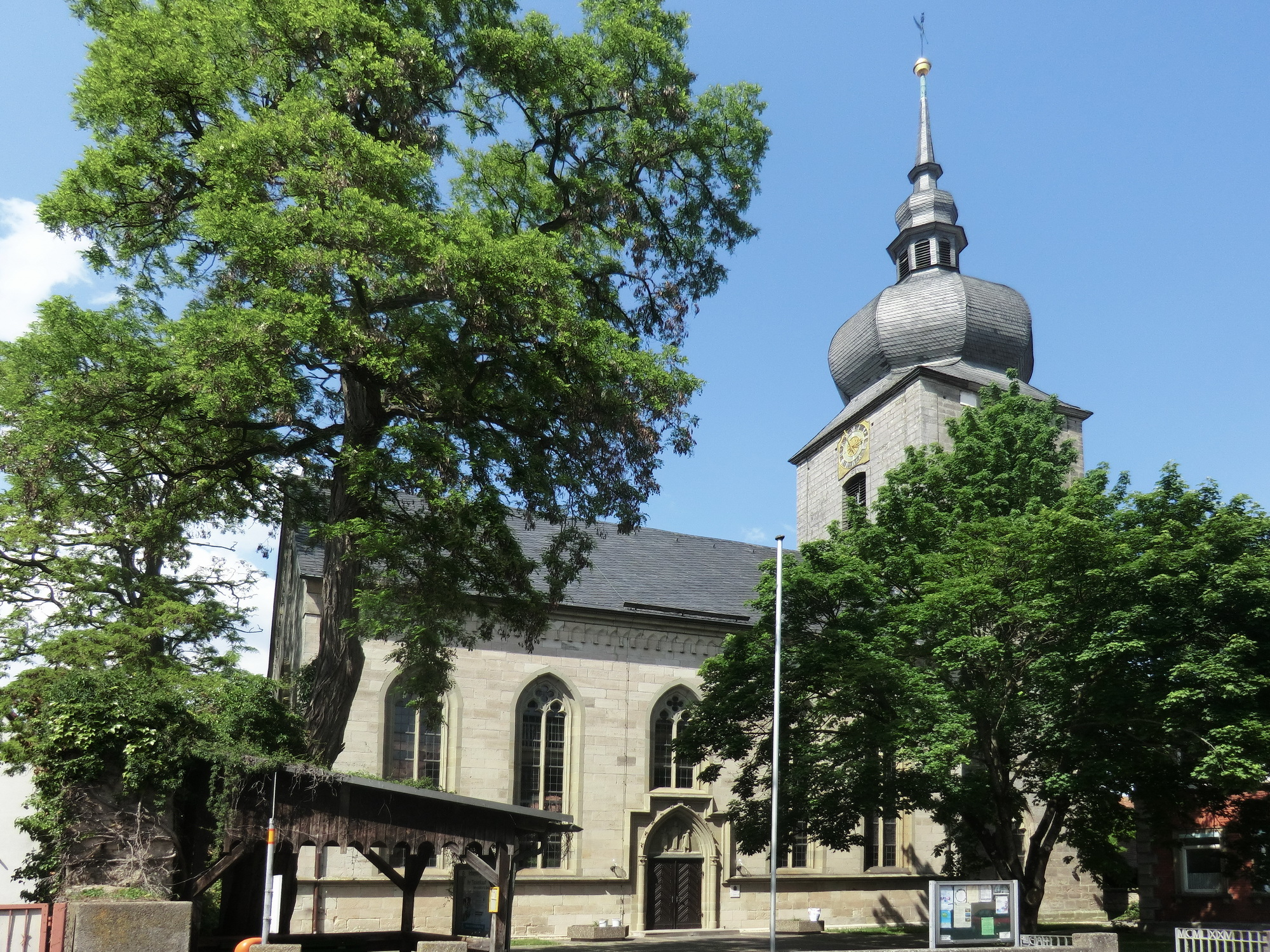 Church of St. James Native nameSt. JakobuskircheLocationUehlfeld, Middle Franconia, GermanyCoordinates49° 40′ 17.03″ N, 10° 43′ 22.29″ E